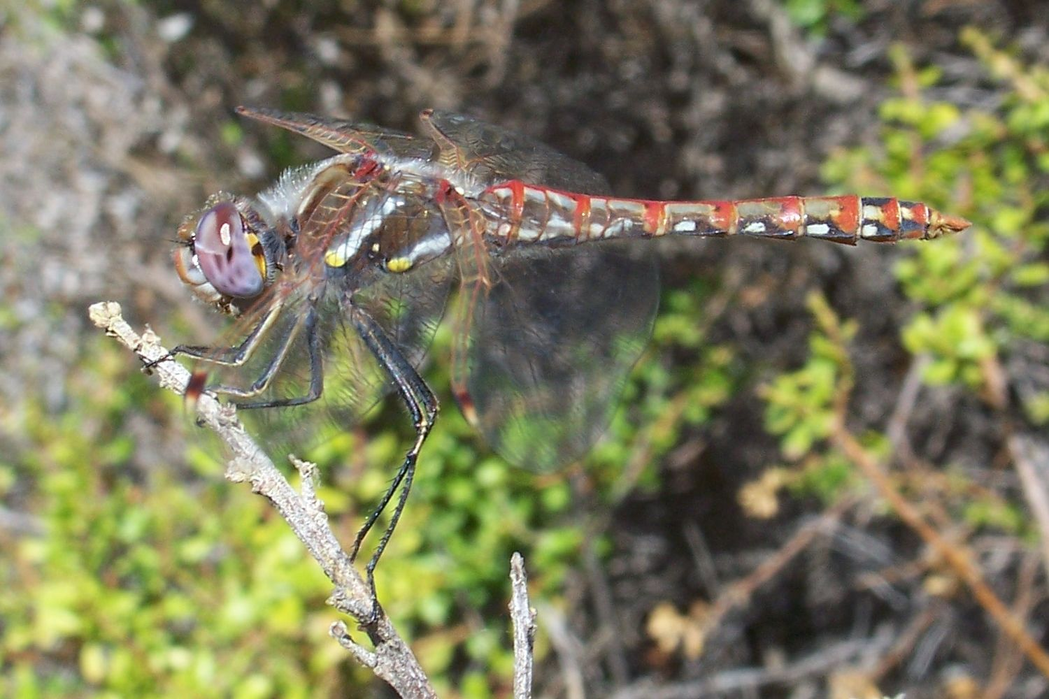 Variegated Meadowhawk. Male